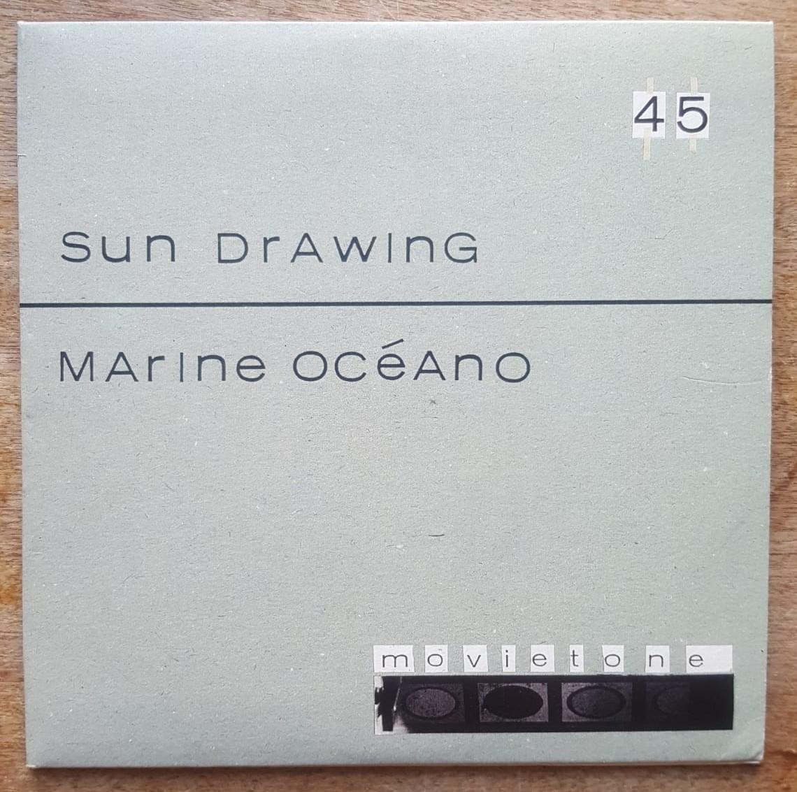 Movietone Sun Drawing/Marine Oceano 7 inch record, Domino records 1997